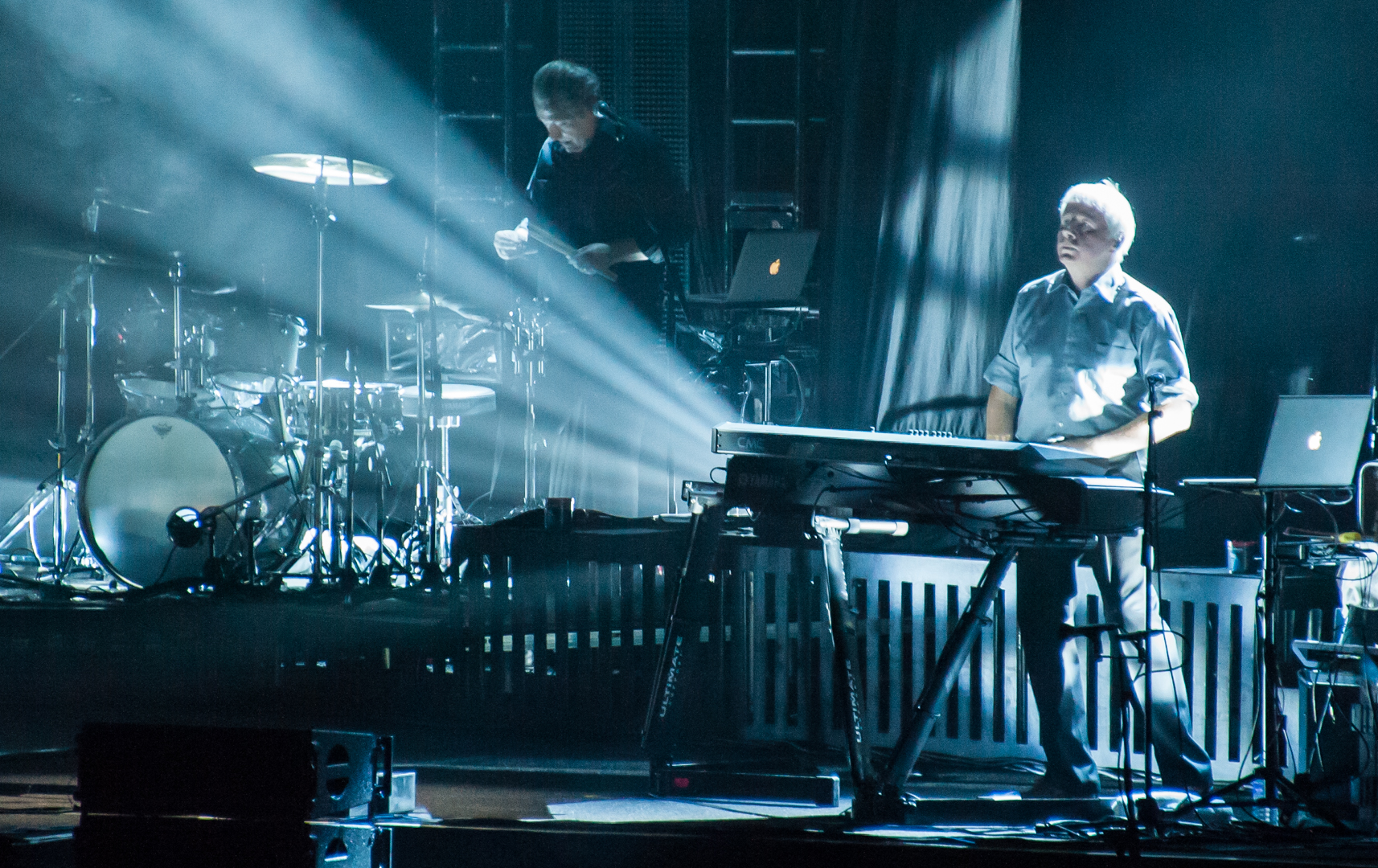 Ultravox playing concert at The O₂ in line with Simple Minds "Greatest Hits" tour, London